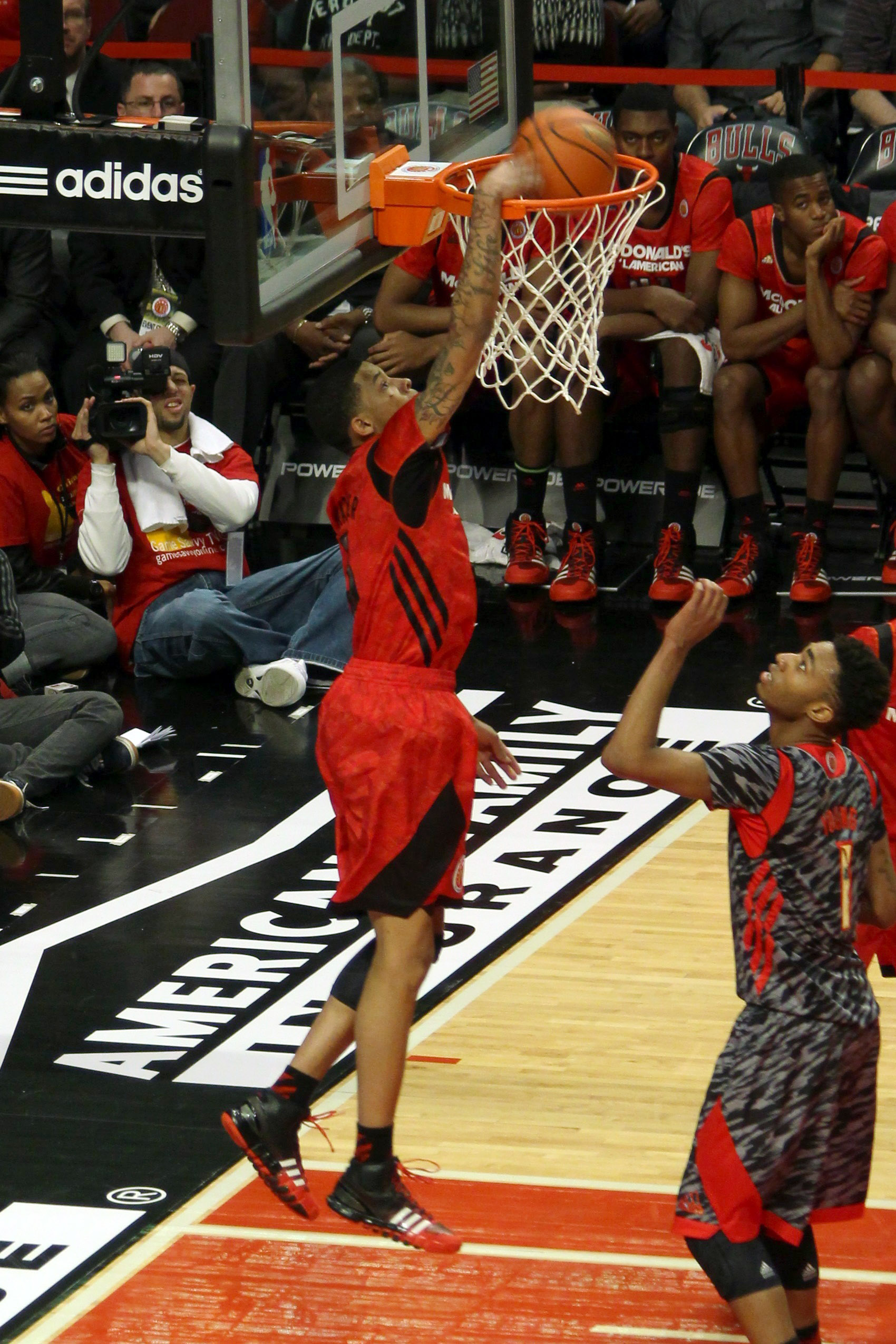 Keith Frazier dunking in front of James Young in the w:2013 McDonald's All-American Boys Game